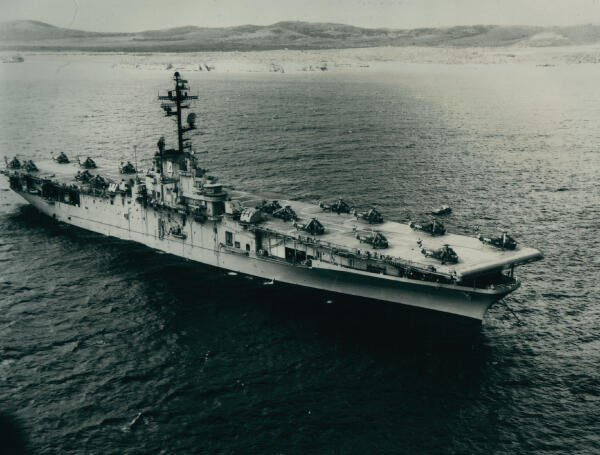 The U.S. Navy helicopter carrier USS Boxer (LPH-4) at anchor off Vieques Island, Puerto Rico, 5 December 1966. Sikorsky UH-34 Seahorse helicopters of Marine medium helicopter squadron HMM-365 line her flight deck.